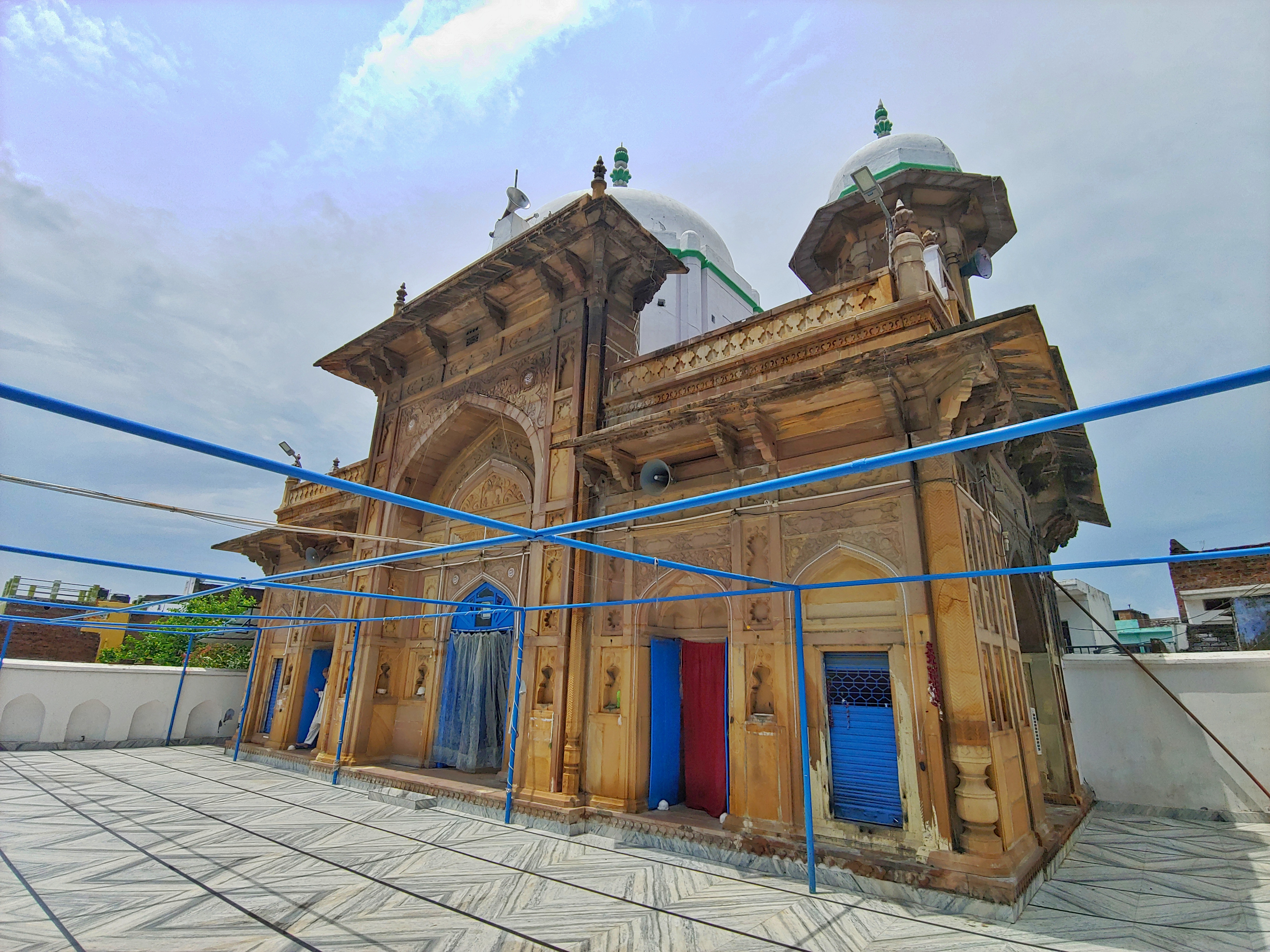 शाही मस्जिद इलाहाबाद